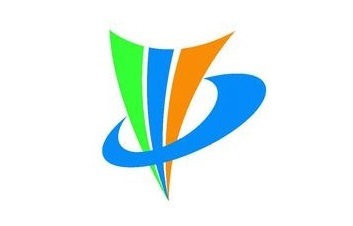 Flag of Nakanoto Ishikawa